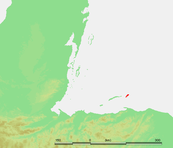 bay islands, Honduras